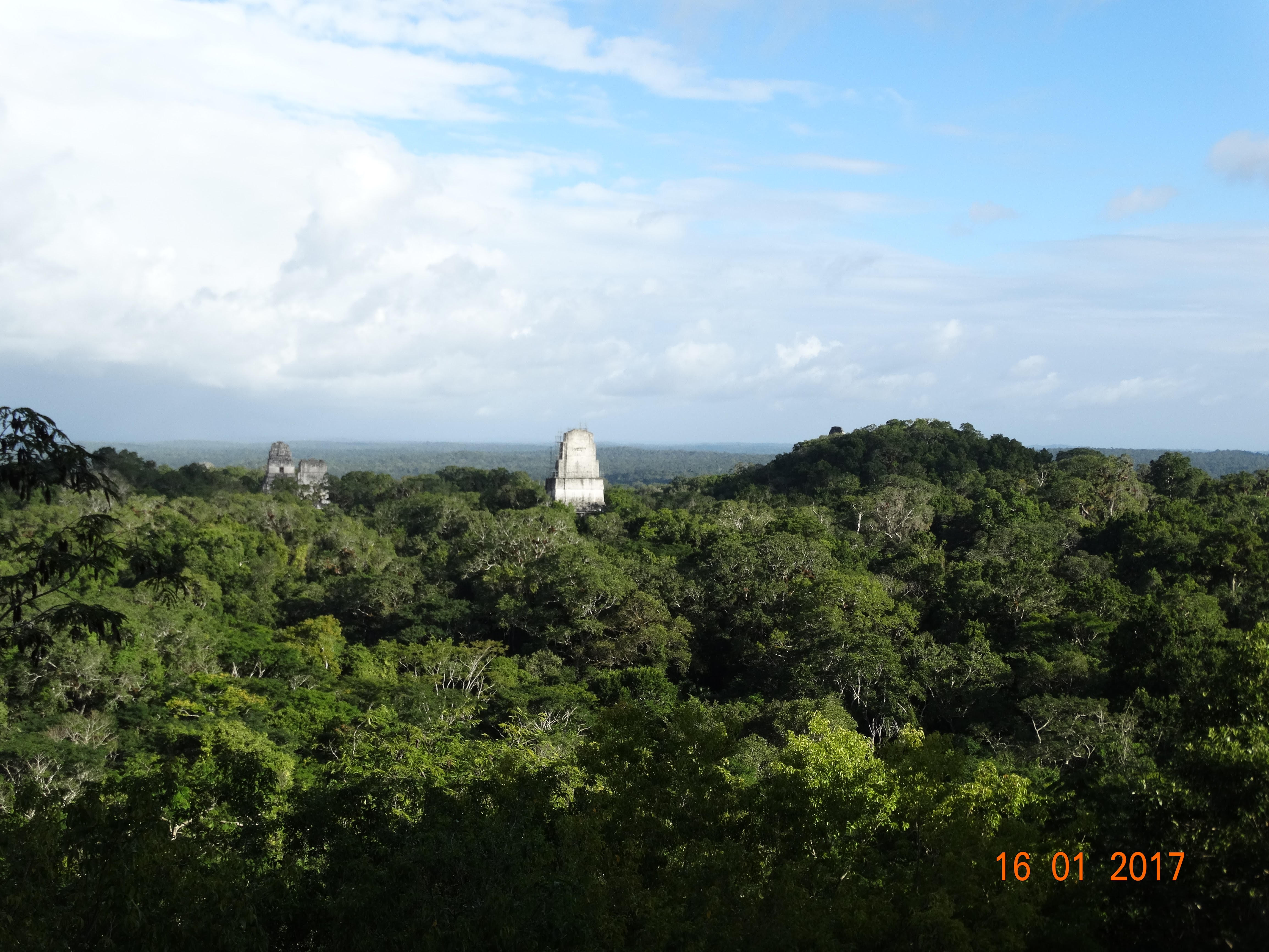 stairs on the pyramide